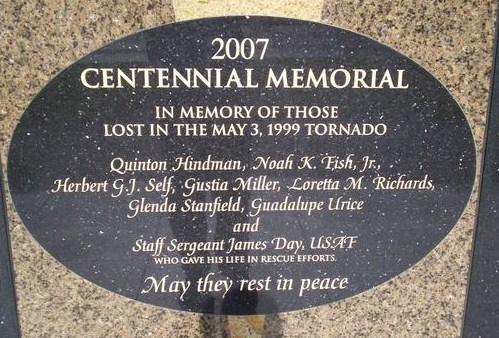 Center of the Del City May 3rd 1999 memorial Monument located in Del City,OK